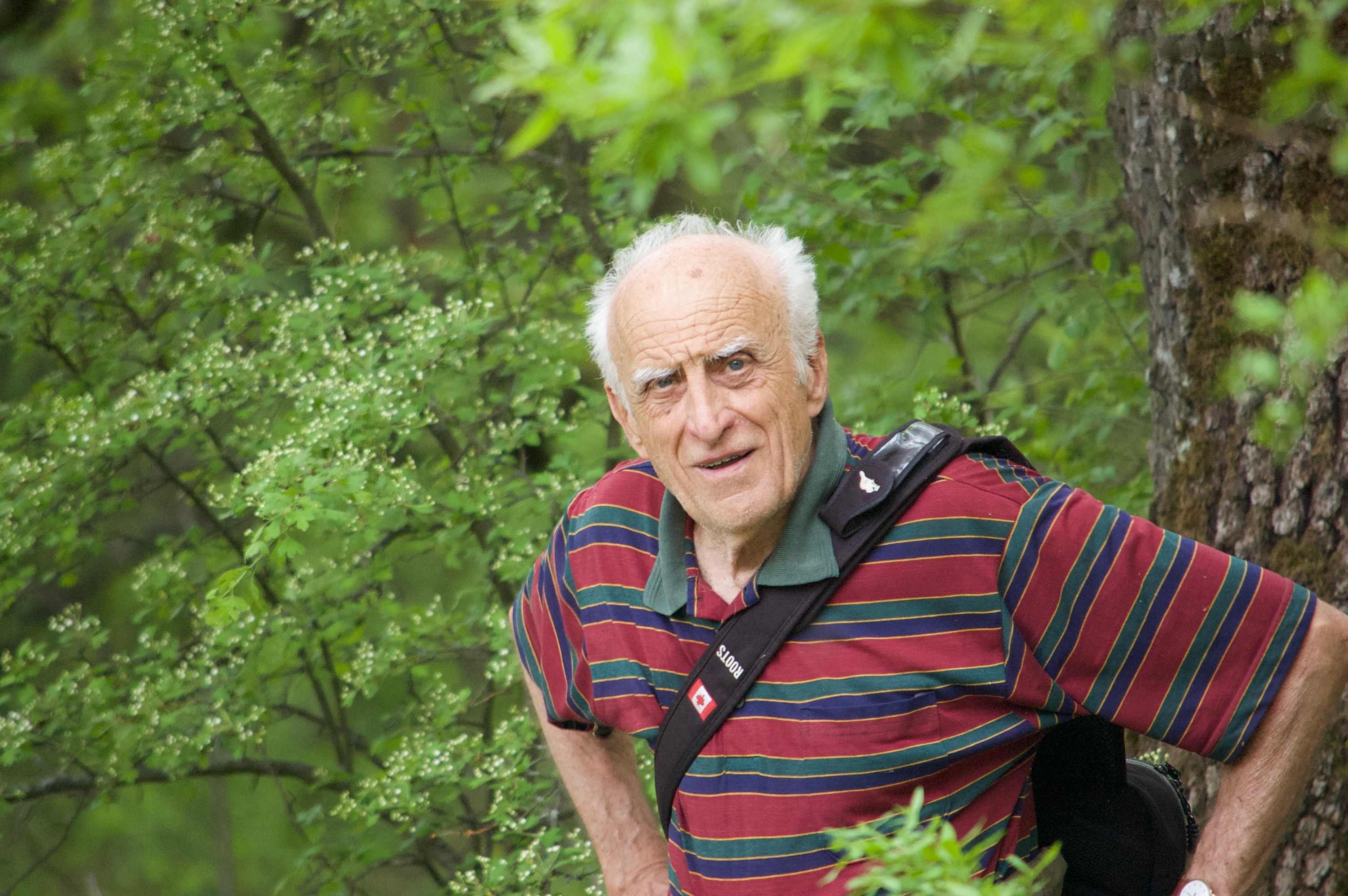 Laszlo Orban at the age of 83